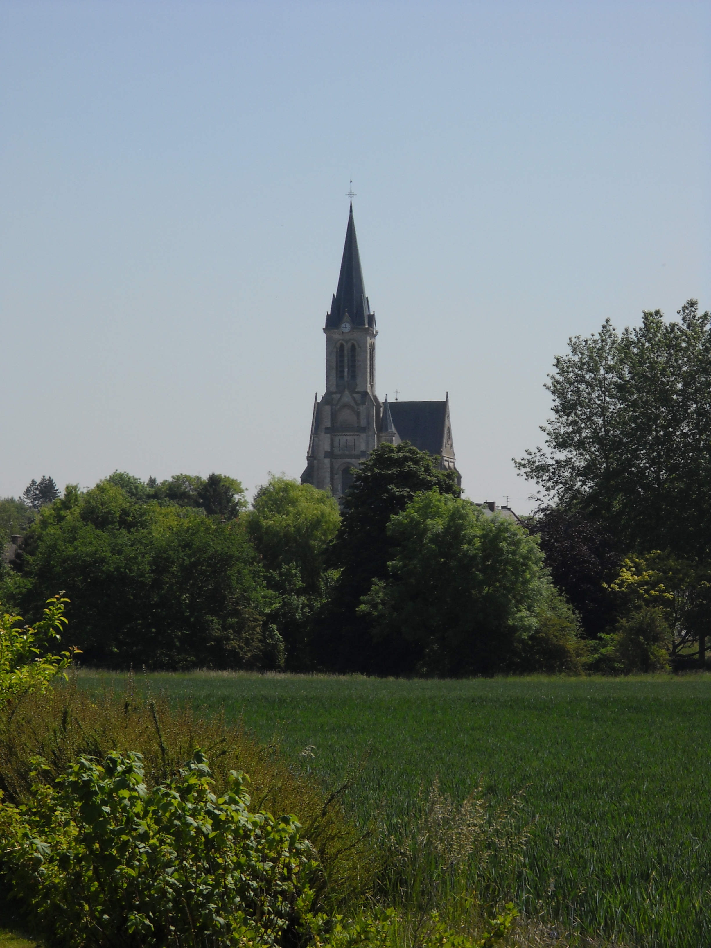 Outside St.Peter's church, in Bouvines, Nord, France.